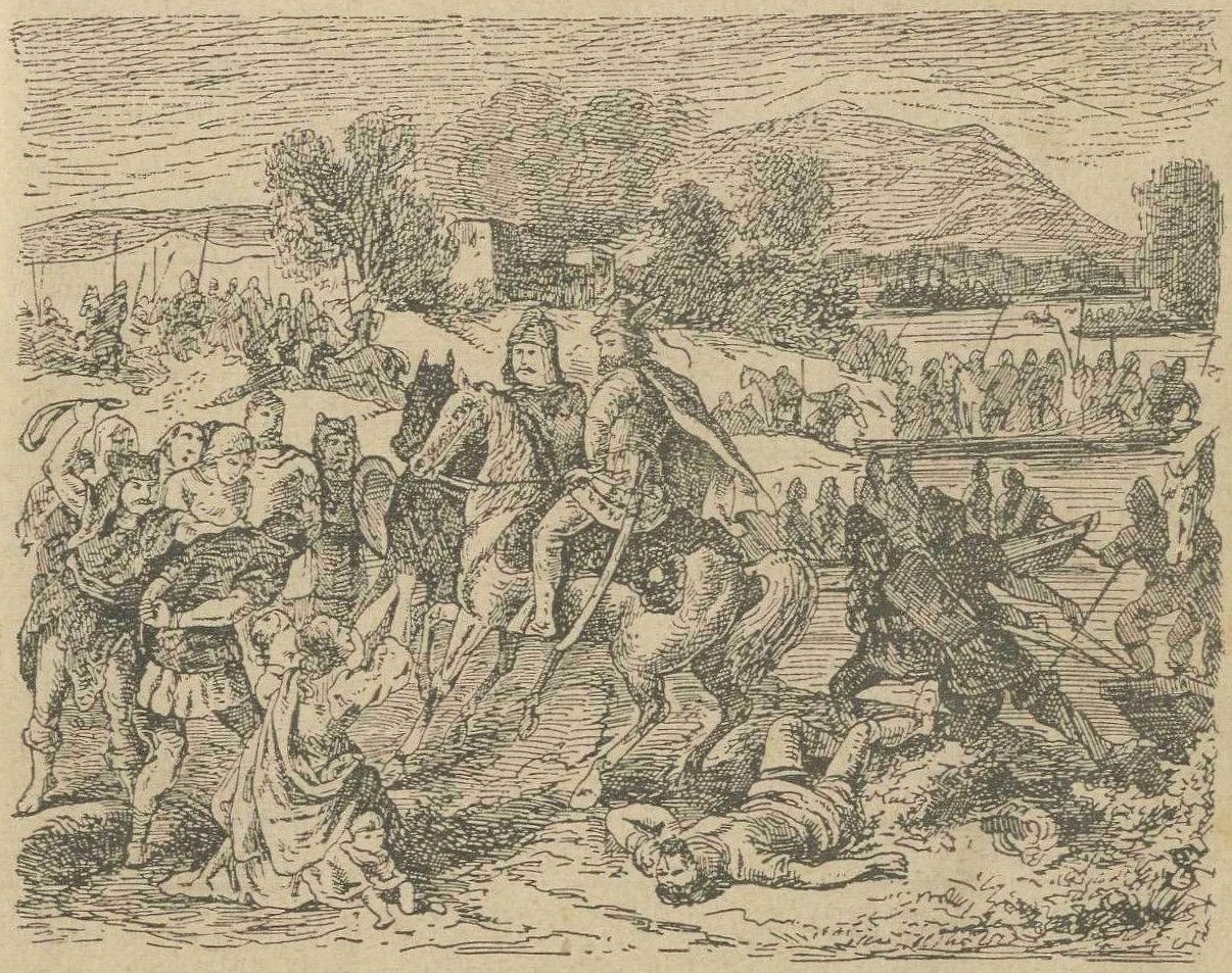 Avars plundering Balkan lands (Avari pljene balkanske zemlje), K. Mandrović (1885).